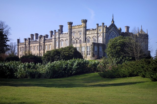 House at Sheffield Park Gardens. Whilst the gardens are owned by the National Trust, the house remains in private hands and is not open to the public.